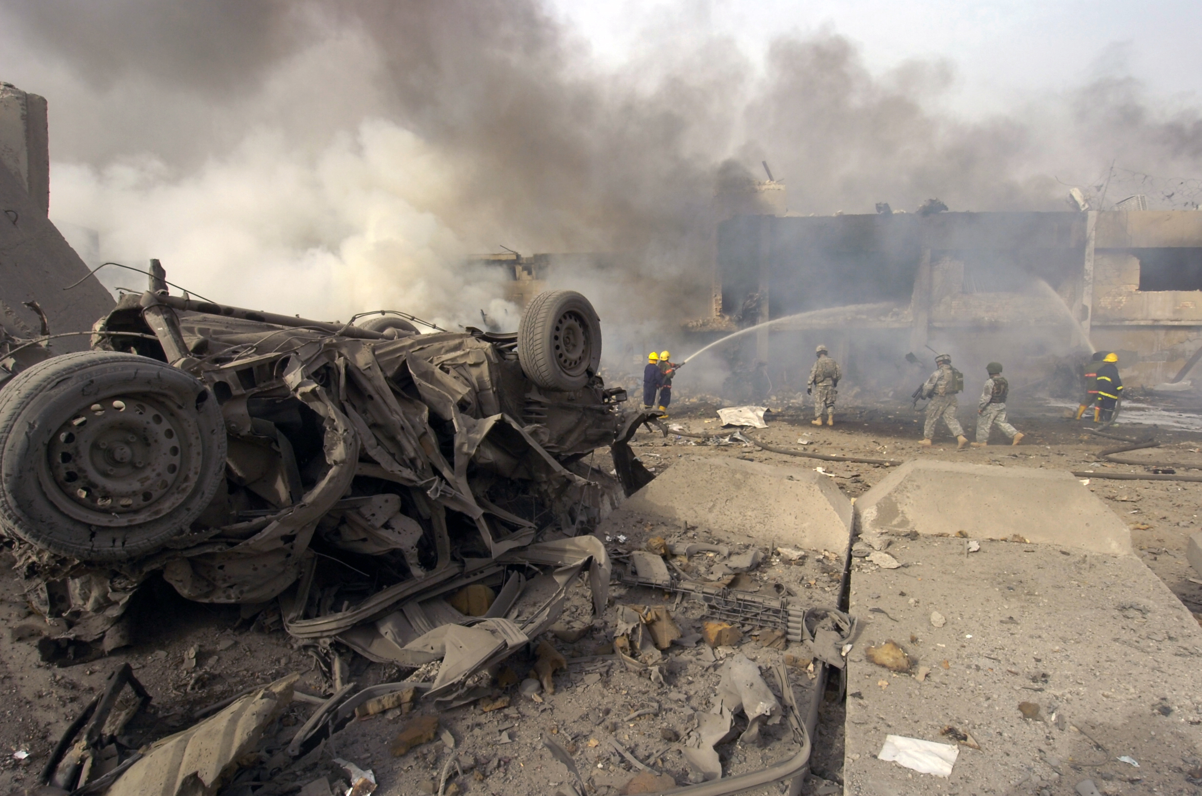 Waziriya, Iraq (Aug. 27, 2006) - A Vehicle Born Improvised Explosive Devise (VBIED) after exploding on a street outside of the Al Sabah newspaper office in the Waziryia district of Baghdad, Iraq. The VBIED destroyed more than 20 cars, killing two people and wounding as many as 30. U.S. Navy photo by Mass Communication Specialist 2nd Class Eli J. Medellin (RELEASED)